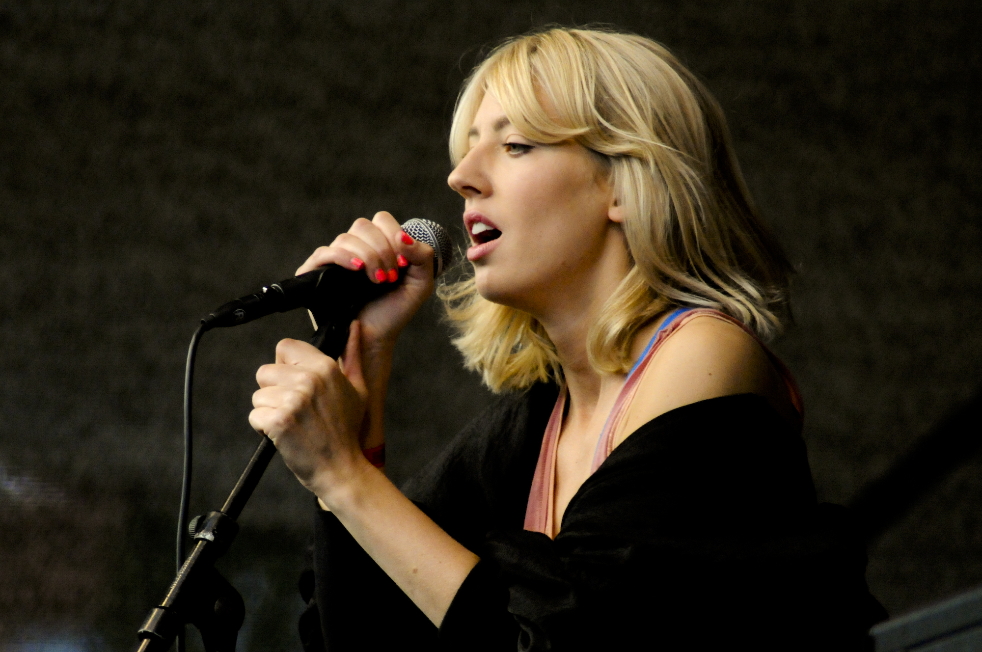 Veronica Maggio performing at Peace & Love in June 2008.